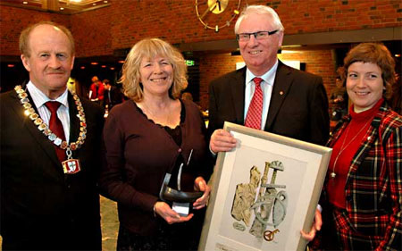 County mayor Gunnar Viken (left) and county council Annikken Kjær Haraldsen (right) awarding the Nord-Trøndelag fylkes kulturpris 2008 to outdoor opera Steinvikholm Musikkteater. Opera director Randi Spets center left, Thor Glad Jakobsen center right